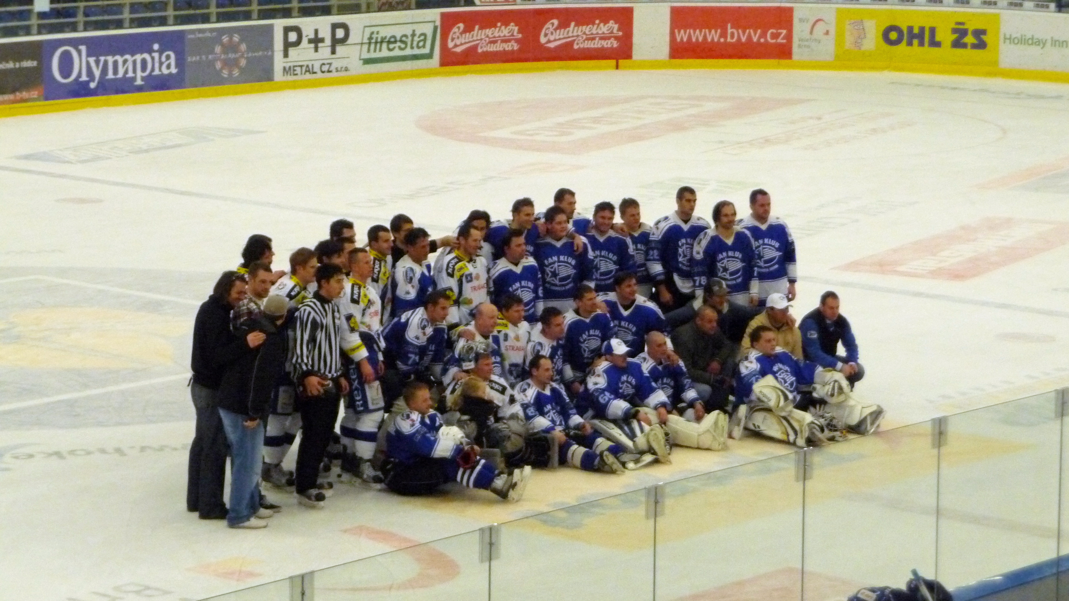 Group photo, friendly match between HC Kometa Brno and his Fan Club, Farewell the HC Kometa Brno with season 2010/2011 -10 -5 -3 -2 ◄ ► +2 +3 +5 +10